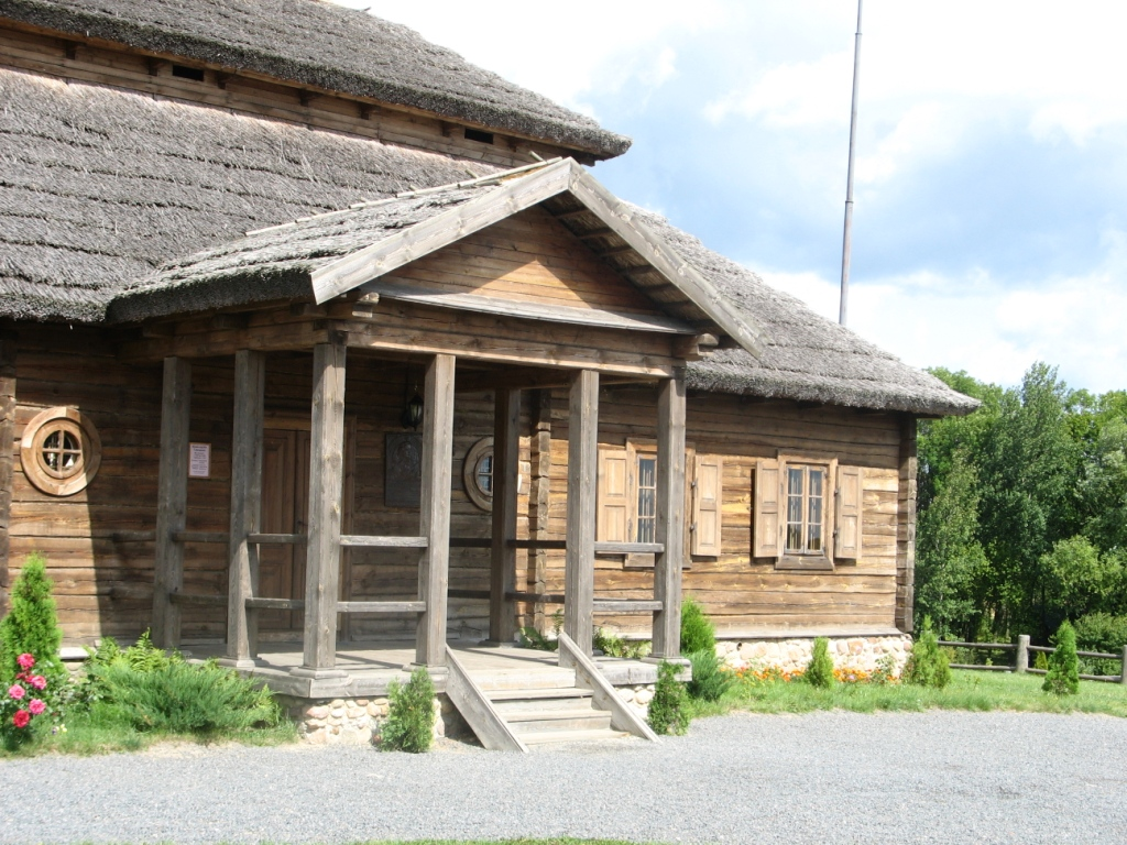 House of Kasciuška (Mieračoŭščyna), Belarus. Restauration